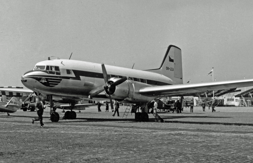 Avia Av-14t (Ilyushin Il-14) OK-LCA of CSA displayed at the 1957 Paris Air Salon